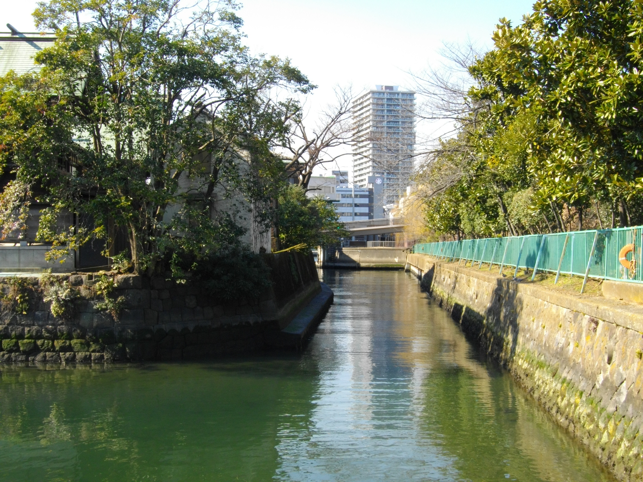 Tsukudagawa-Shisen